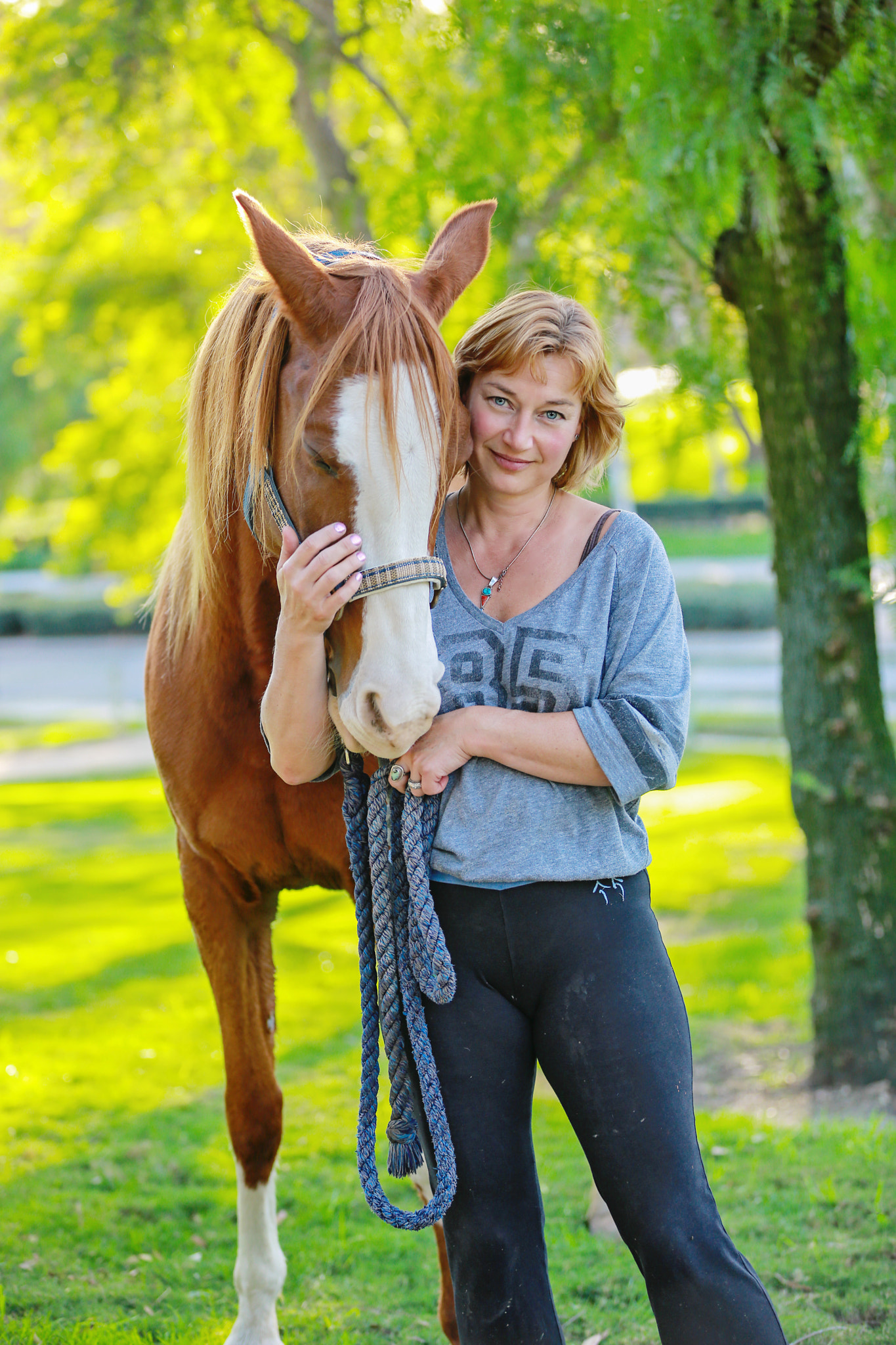 500px provided description: A dear friend and her beloved mare [#Horse ,#Friends ,#Mare ,#Arabian ,#Owner]